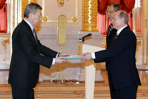 ST ALEXANDER HALL, GRAND KREMLIN PALACE. Ceremony for the presentation of foreign ambassadors\' letters of credentials. Ambassador of the Republic of Kazakhstan Nurtai Abykaev presents his letter of credentials. In the background is Russian Foreign Minister Sergei Lavrov.